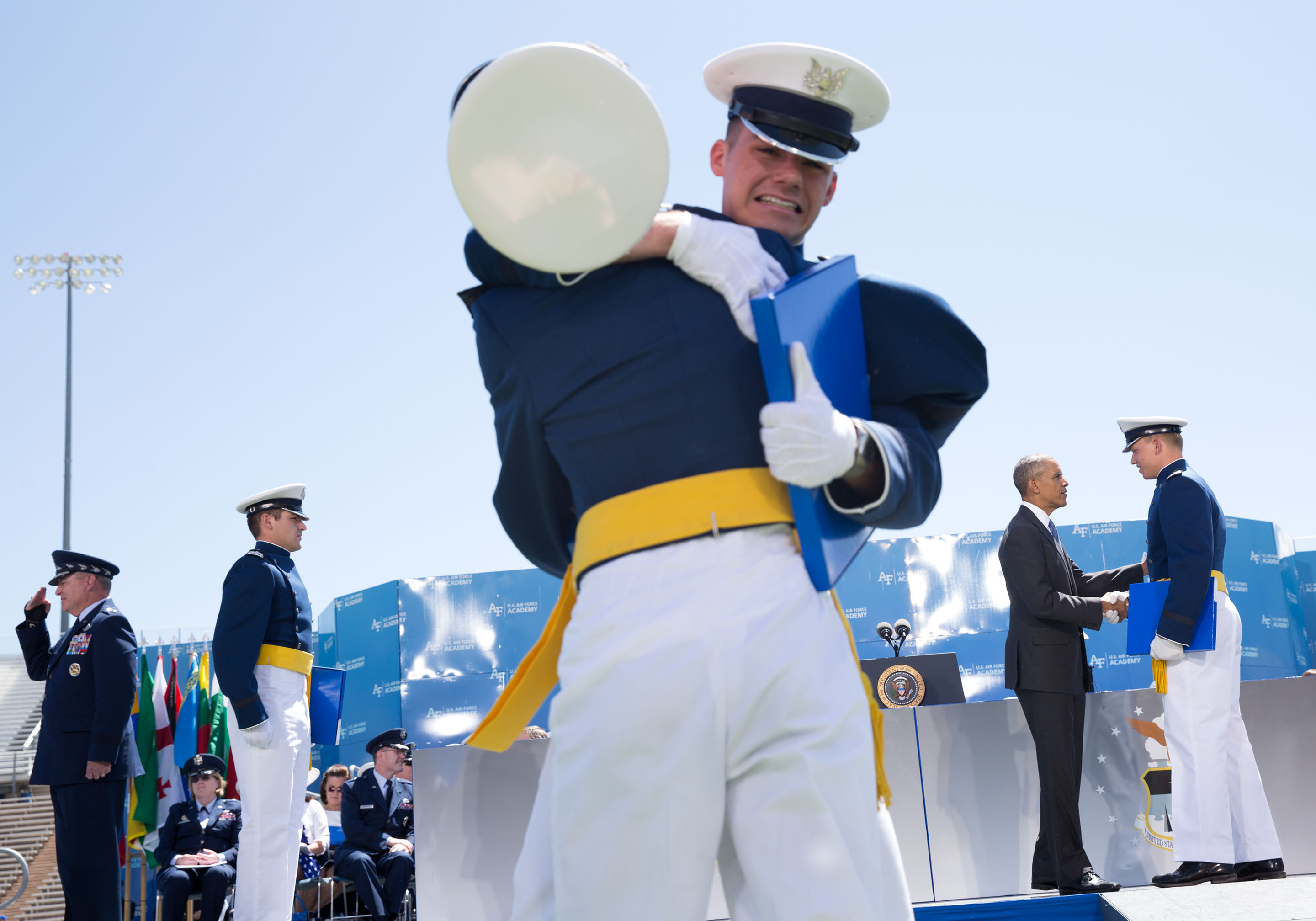 President Barack Obama shakes hands with a U.S. Air Force Academy graduate as others celebrate, during the United States Air Force Academy commencement ceremony at Falcon Stadium in Colorado Springs, Colo., June 2, 2016 (Official White House Photo by Pete Souza)